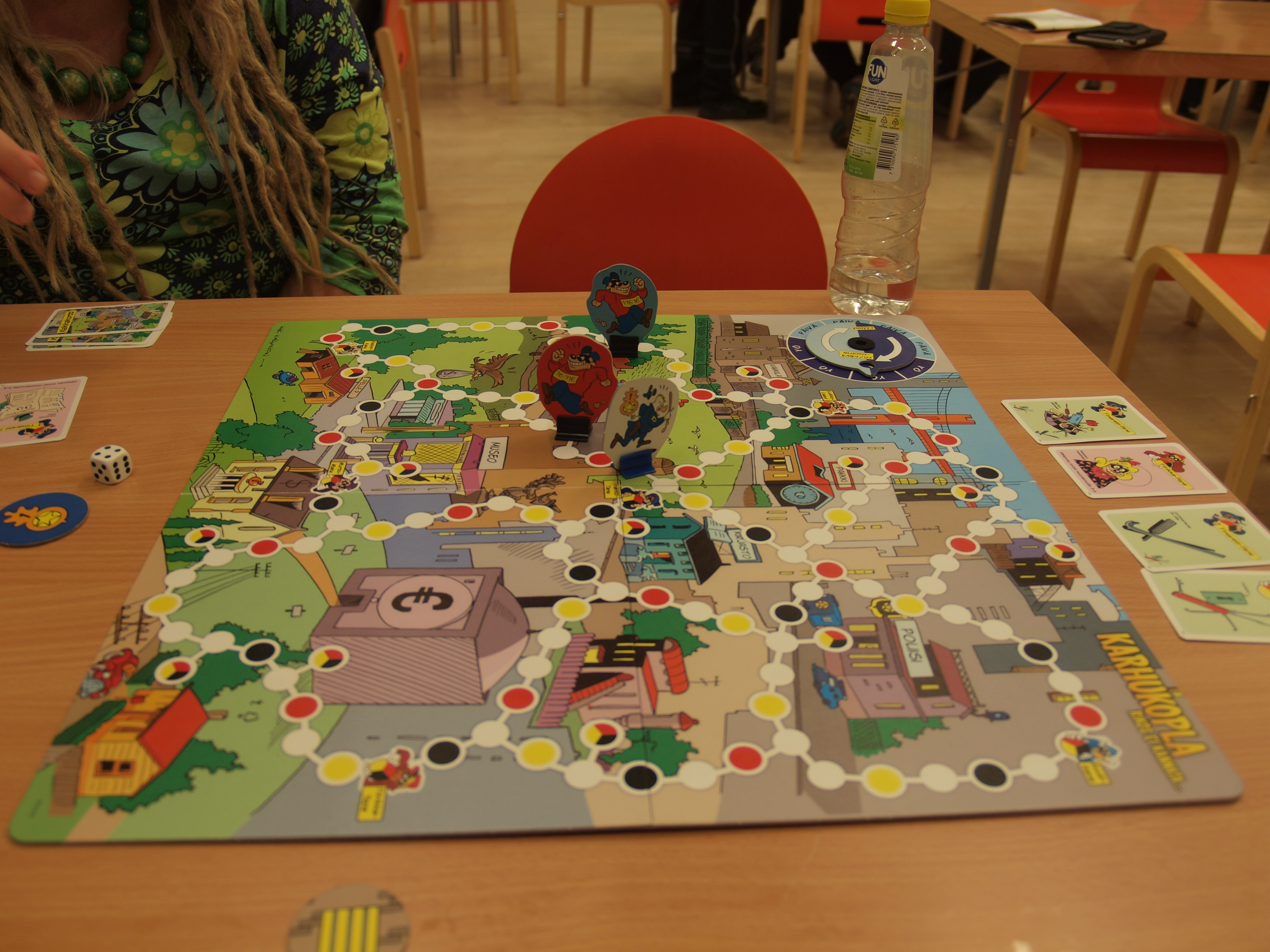 A game of Karhukopla (the Finnish name for the Beagle Boys), a children's board game themed after the Donald Duck comics by Disney and the Beagle Boys in particular, being played at a special board game day in Viikki, northern Helsinki, Uusimaa, Finland.